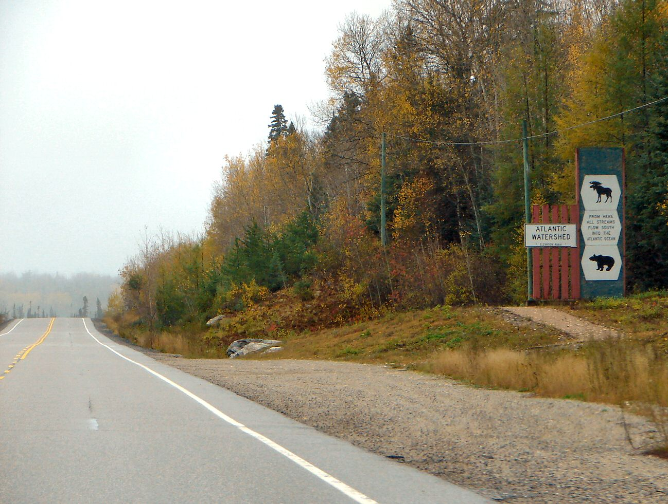 Highway 101 at the Laurentian Divide, Ontario, Canada